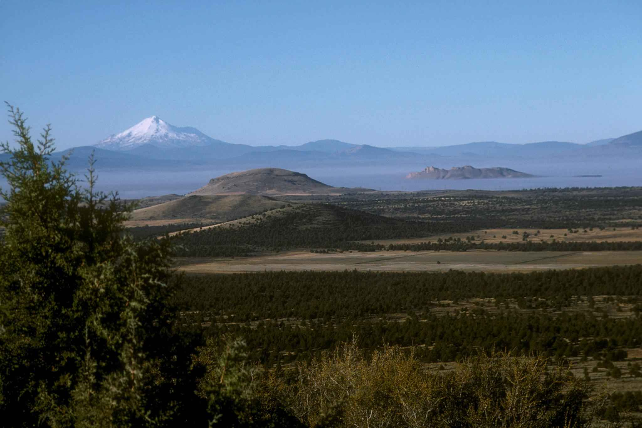 Image title: Expansive view of the Tule lake basin Image from Public domain images website